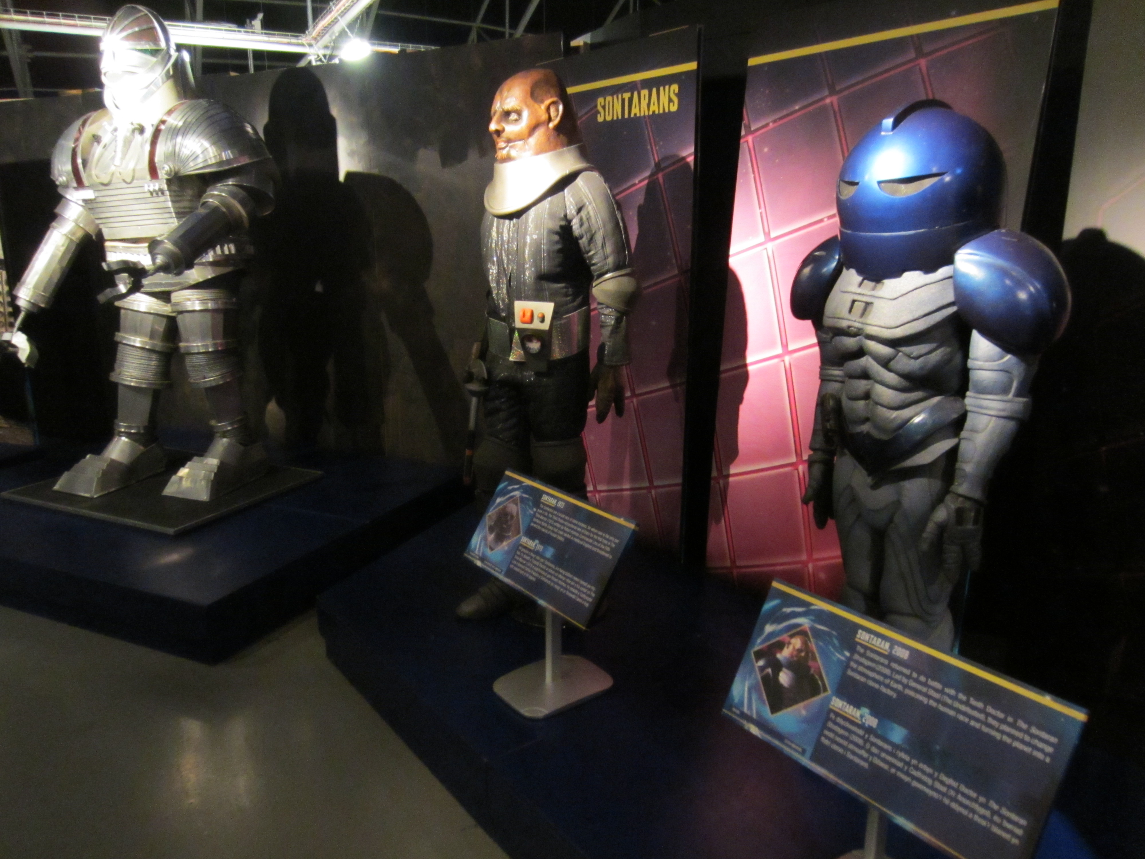 Costumes and prop from Doctor Who, displayed at the Doctor Who Experience in Cardiff.